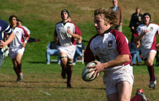 Boston College Rugby Running with the ball in a match on St. John's Field Chestnut Hill, Massachusetts, USA Photo by author